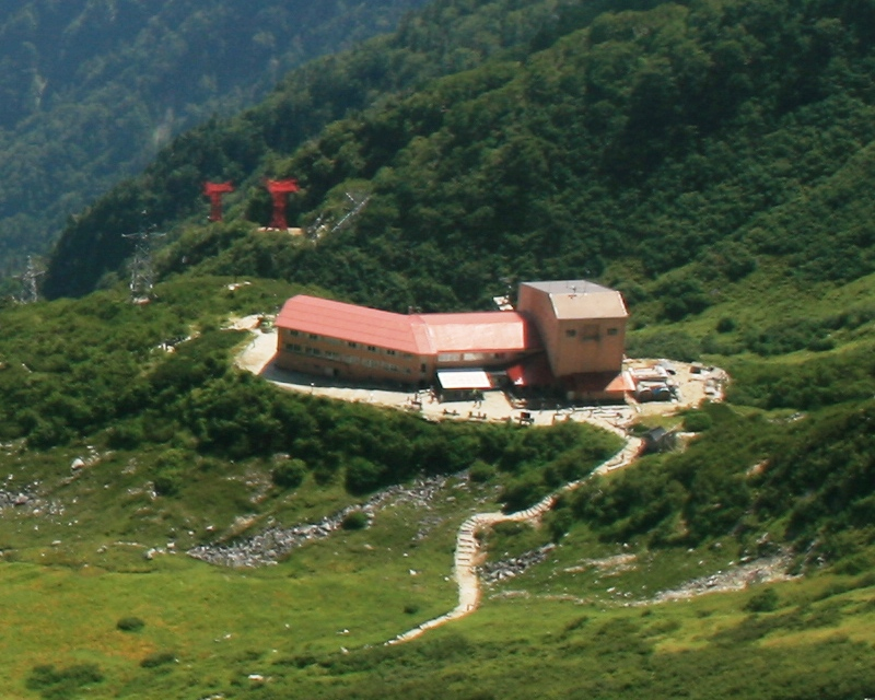 Senjōjiki Station of Komagatake Ropeway from Mount Hōken